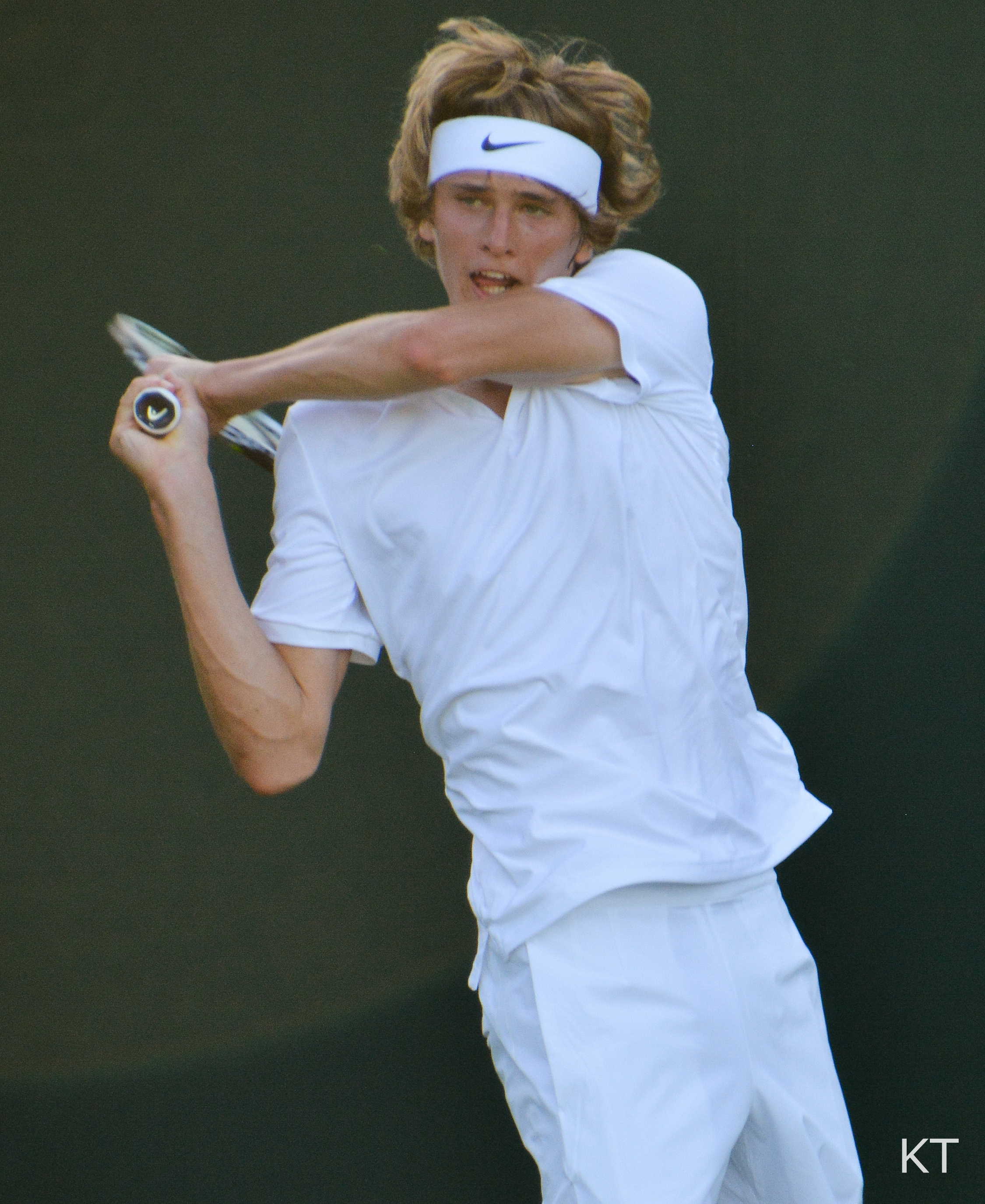 Day 1 of Wimbledon 2015.